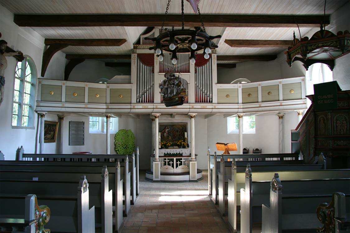 Arnis, the interior of the Skipper (sailor) church